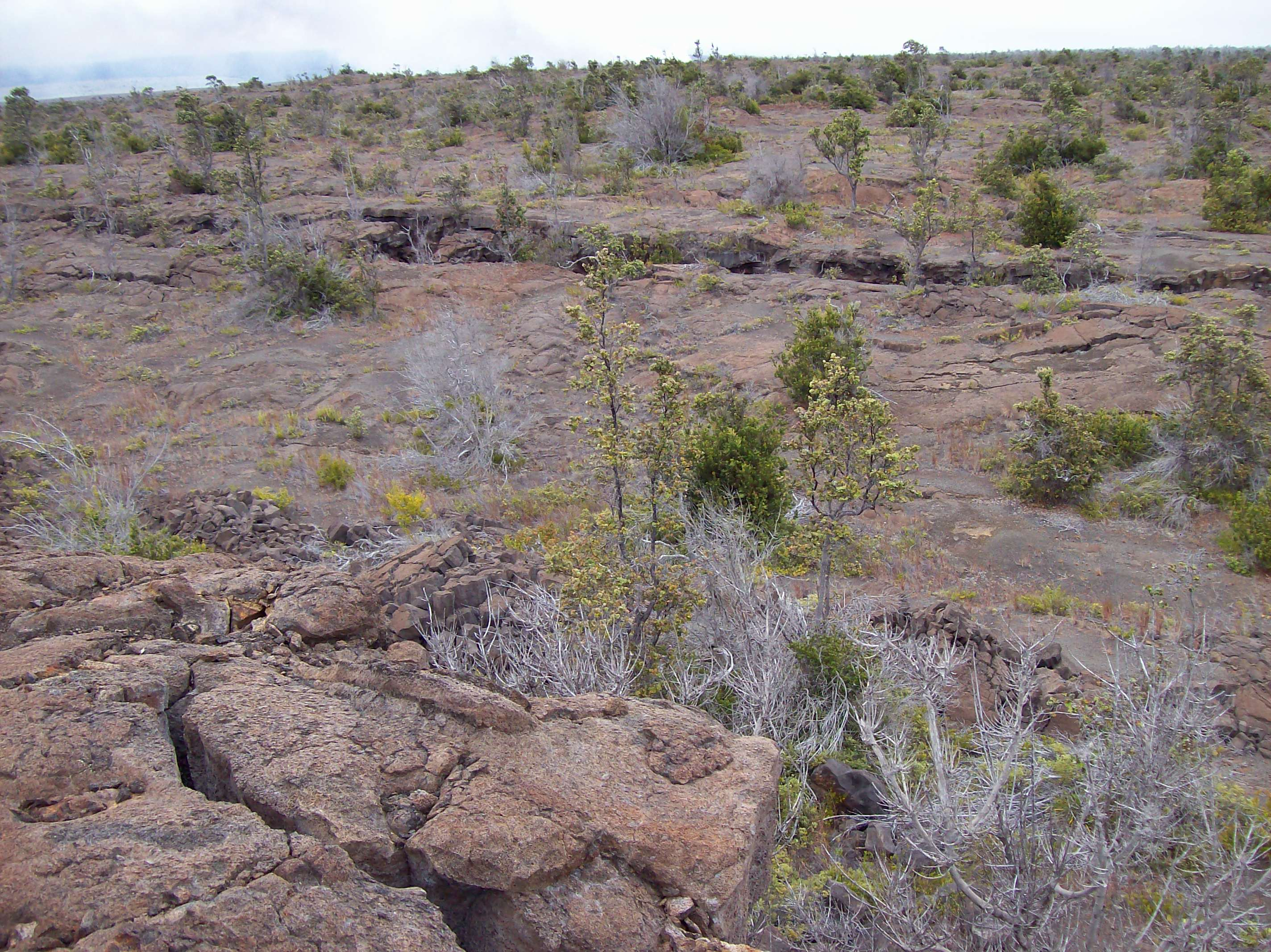 Large ground cracks in the Koa'e Fault Zone on Kilauea Volcano on the Big Island of Hawaii.